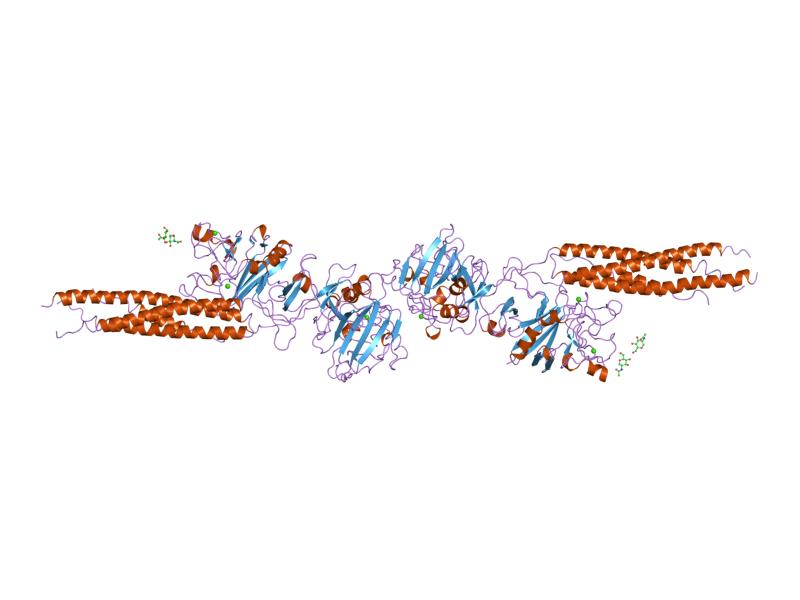 Cartoon representation of the molecular structure of protein registered with 1fze code.